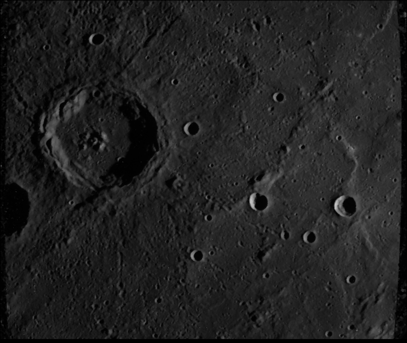 Image Number: 0000099GMT: 1974:088:21:37:38Start Time: 1974-03-29T21:37:38.295ZLatitude: 45.86° to 52.23°Longitude: 171.2° to 180.62°Resolution (meters per pixel): 272Incidence Angle: 81.15°Emission Angle: 30.16°Phase Angle: 80.03°Zola crater at left. North is up.